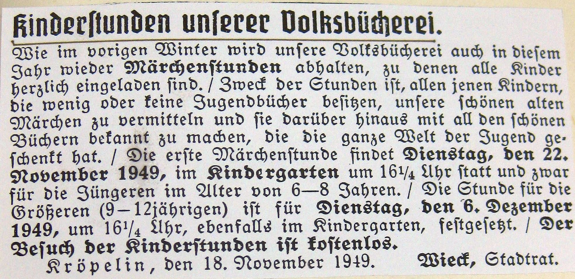 Announcement of the Rat der Stadt Kröpelin, 19 November 1949